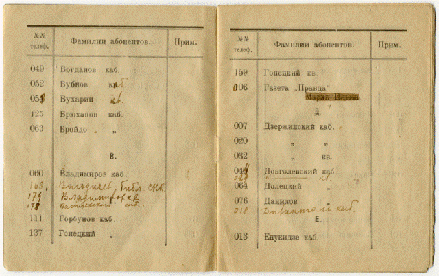 Kremlin telephone book 1922, page with Dzerzhinsky (secret police chief) phone number 007. From Sadovsky's family archive.